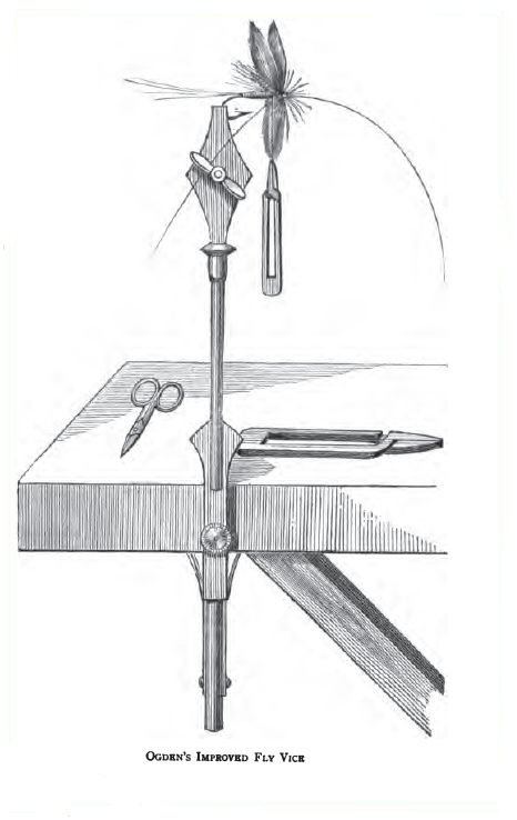 Page 13 Illustration of Ogden's Improved Fly Vice from Ogden on Fly Tying (London 1887).